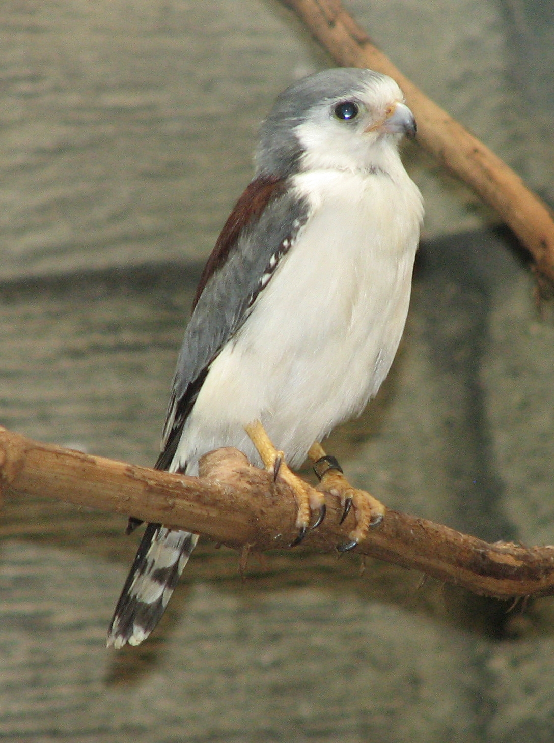 African Pygmy Falcon - Polihierax semitorquatus - Taken at Louisville Zoo in Kentucky